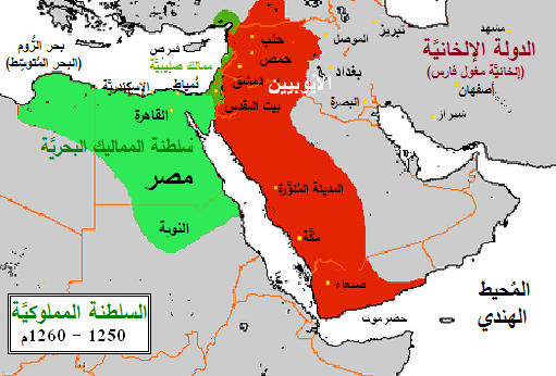 Mamlukes -Ayyubid Dynasty 1250–1260 (AD) in Masry